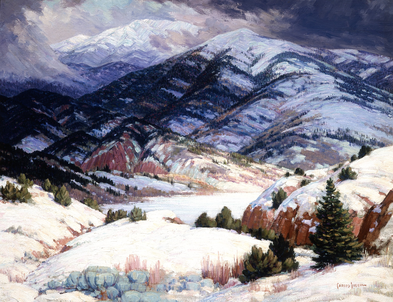 Northern New Mexico in Winter by Carlos Vierra, 1922, oil on canvas, 28 x 38 inches, private collection